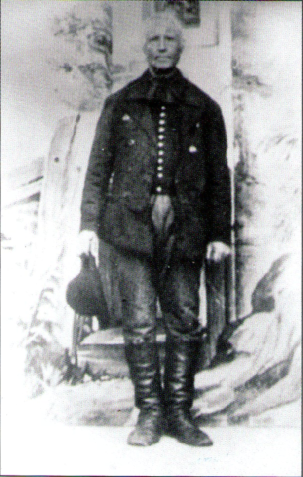 Ancestor of Hungarian poet János Pilinszky